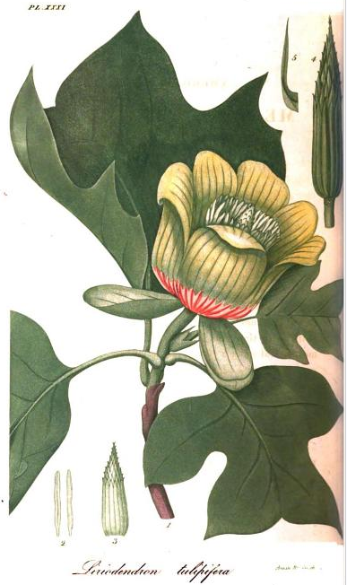 Plate illustration from: Jacob Bigelow. American medical botany: being a collection of the native medicinal plants of the United States. Boston: Cummings and Hilliard, 1817-1820. 3 volumes.